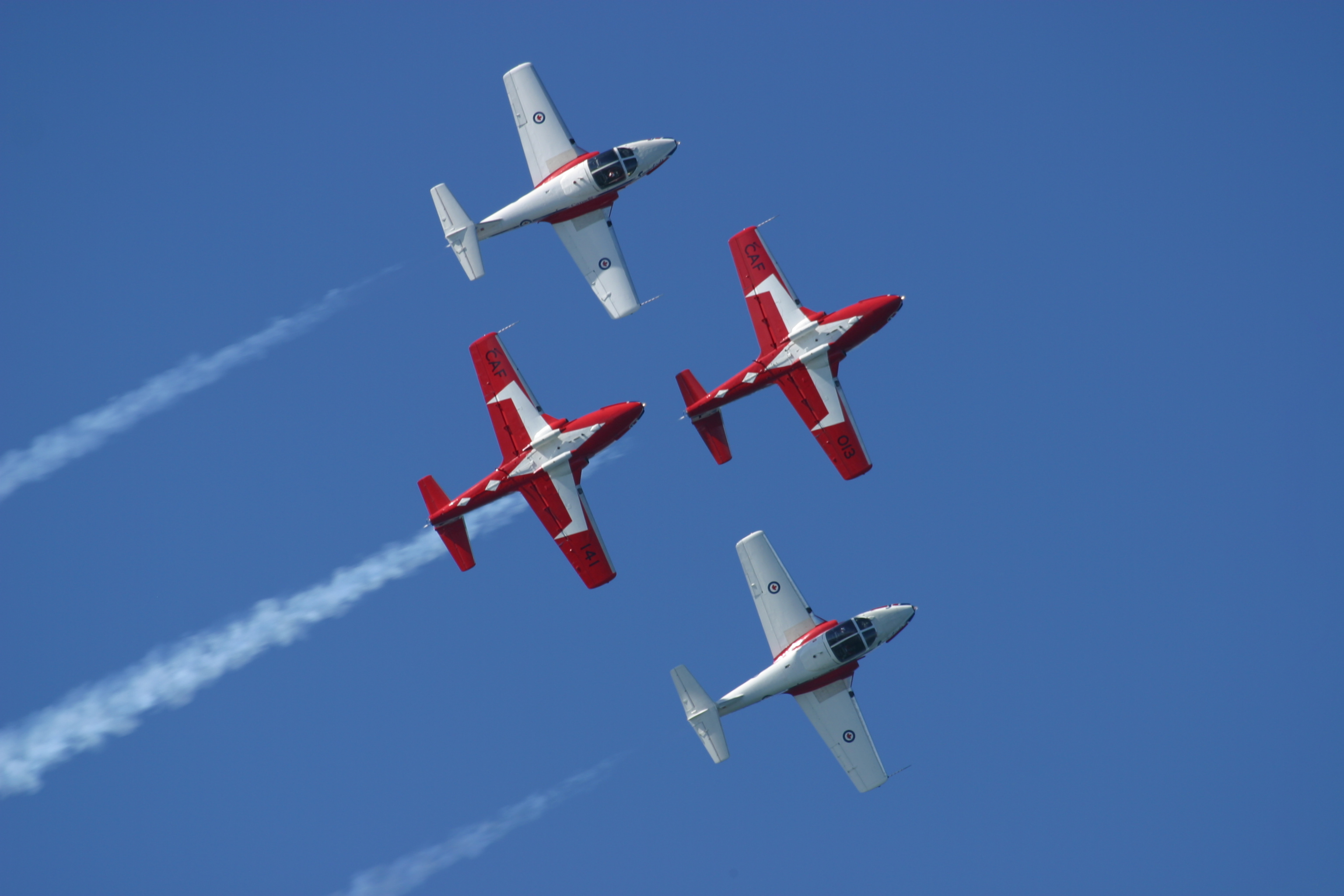 The Snowbirds Demonstration Team in a four-plane formation over San Francisco, CA, during Fleet Week - October 10, 2004.